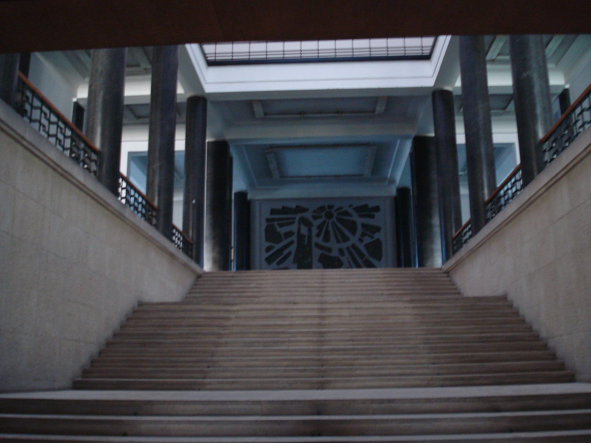 Martynas Mazvydas National Library of Lithuania in Vilnius. Main stairs (Gedimino pr. 51). Building projected and constructed in 1959-1963. Architect Viktor Anikin, engineer Ciprijonas Strimaitis.